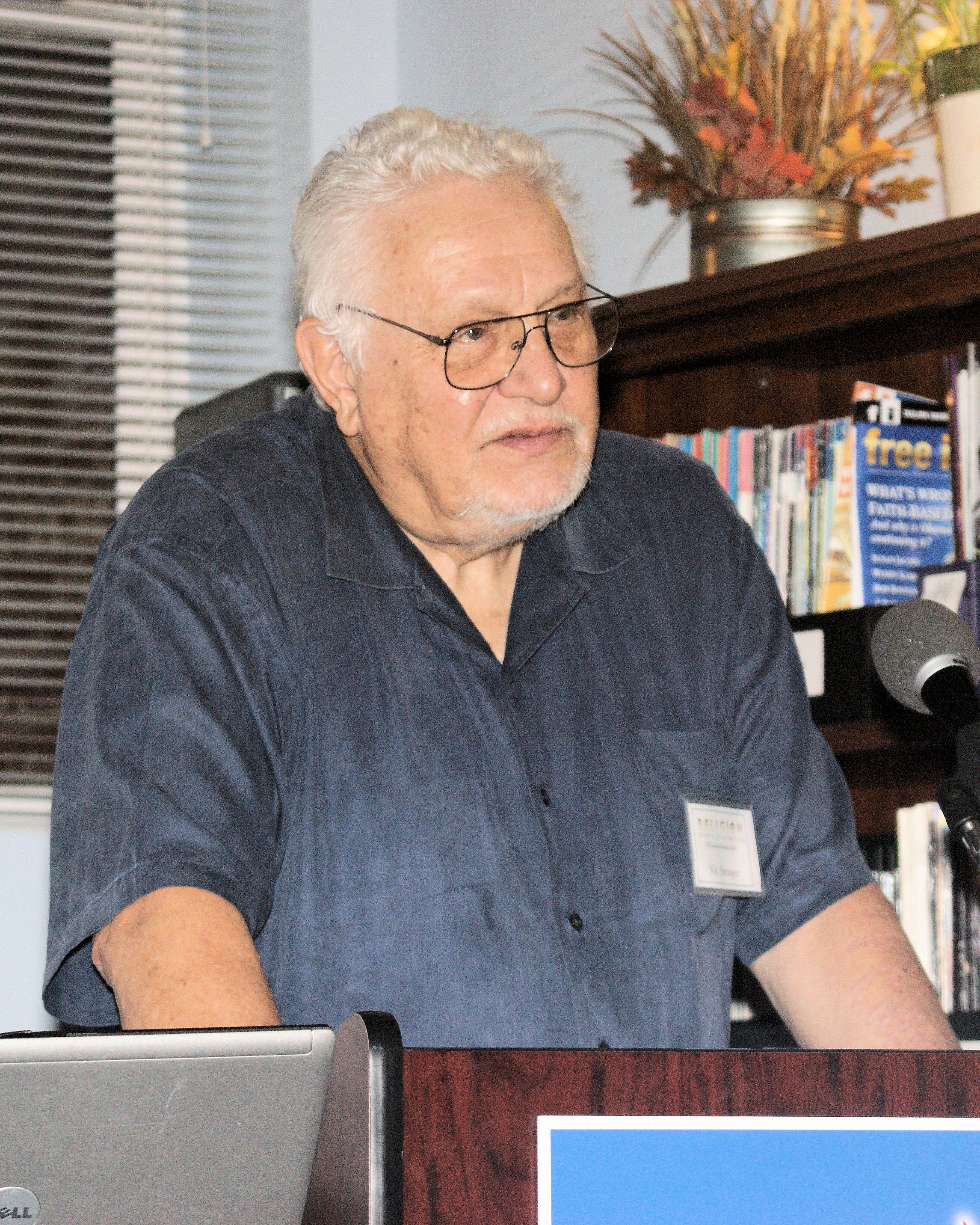 Victor Stenger speaking at CFI Religion Under Examination meeting, Washington, DC, July, 2010.